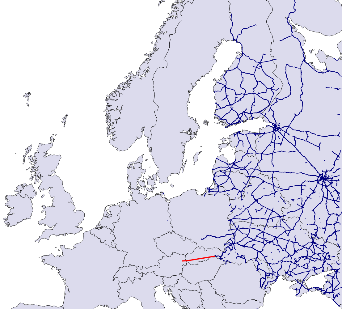 Proposed broad gauge railway to Vienna. Also a part of European broad gauge network is shown